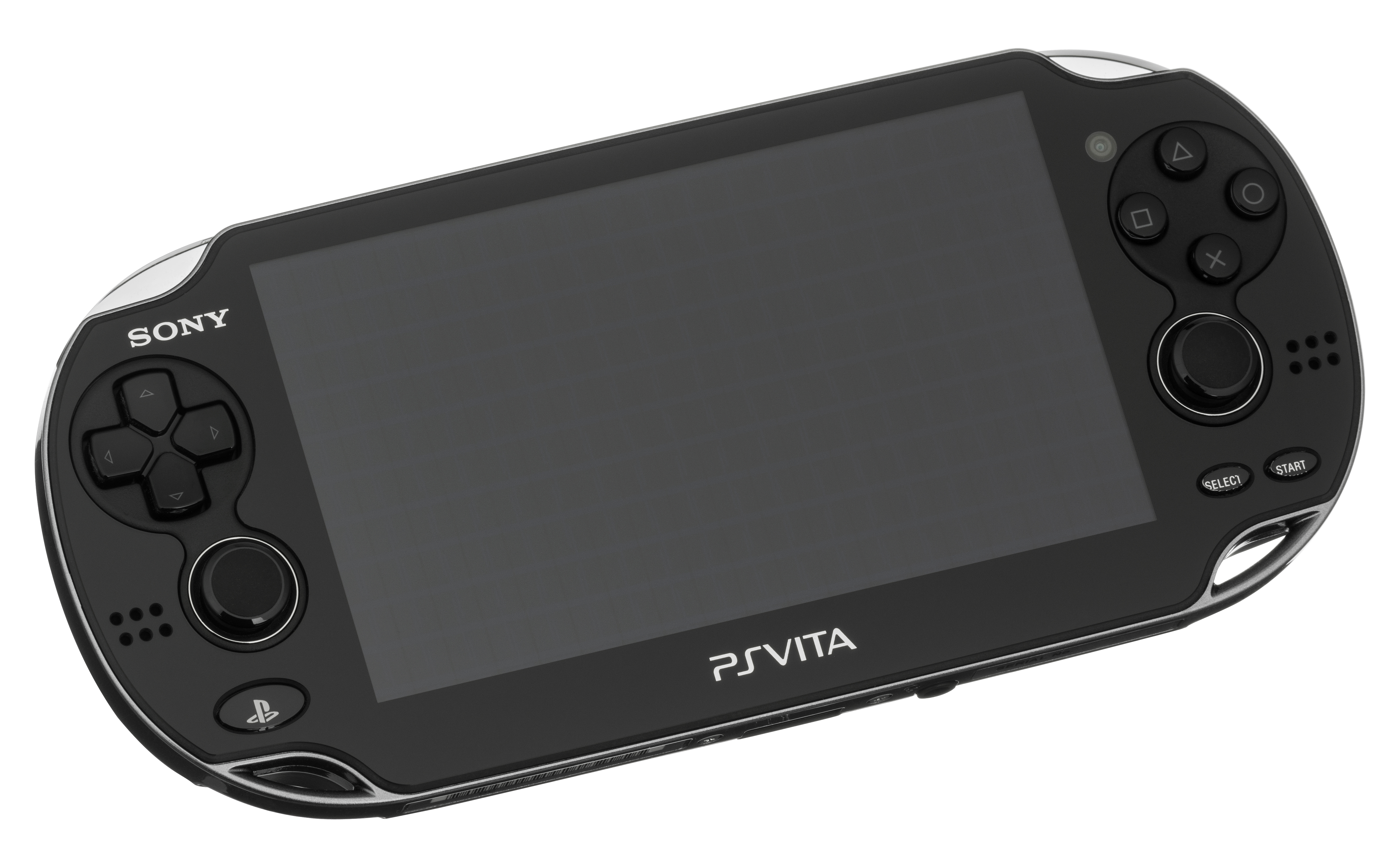 The PlayStation Vita, a handheld gaming console by Sony released in 2012. The successor to the PlayStation Portable (PSP), the Vita has numerous improvements over the previous system. It has rear and front touchscreens, dual analog sticks and a higher resolution OLED screen. This model, the PCH-1101 also has built-in 3G wireless service support, but also comes in a Wi-Fi (PCH-1001) model.